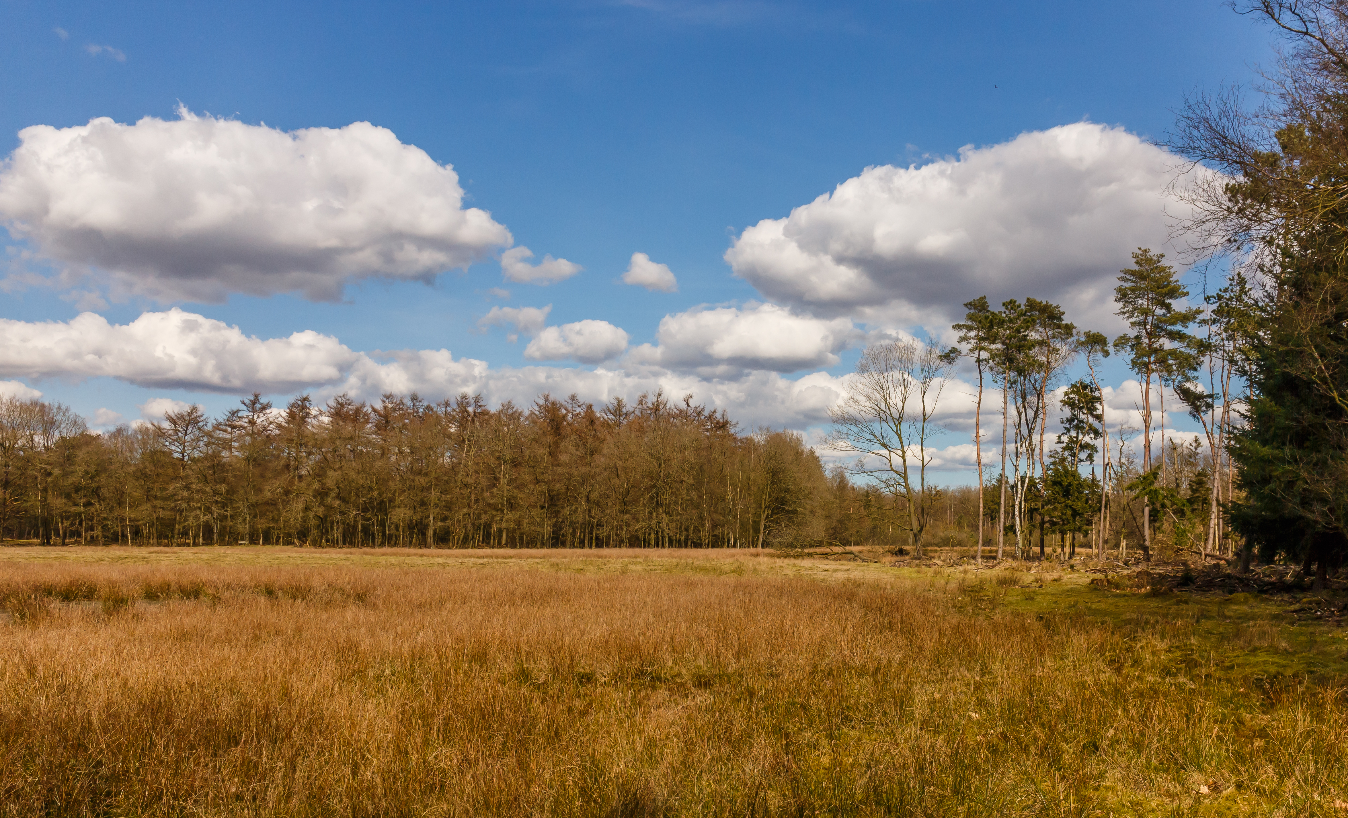 Drents-Friese Wold National Park. Location Dieverzand. Forest.